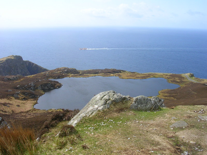 View on the Atlantic Ocean from Slieve League, Slieve League.